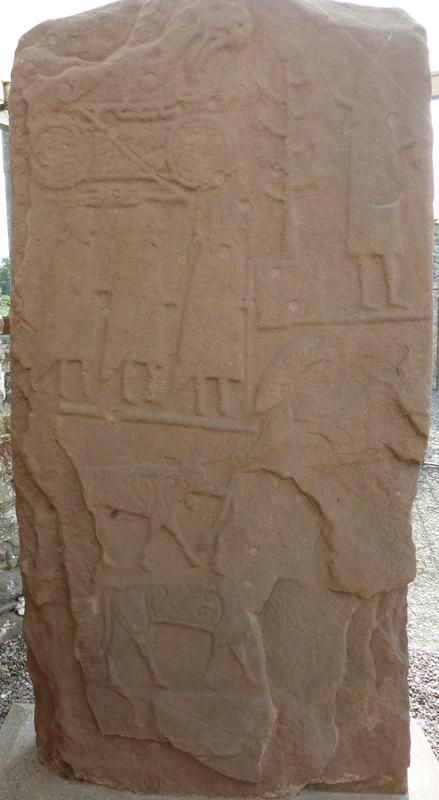 Eassie Sculptured Stone, Eassie, Angus, Scotland